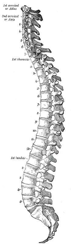 Lateral view of the vertebral column.